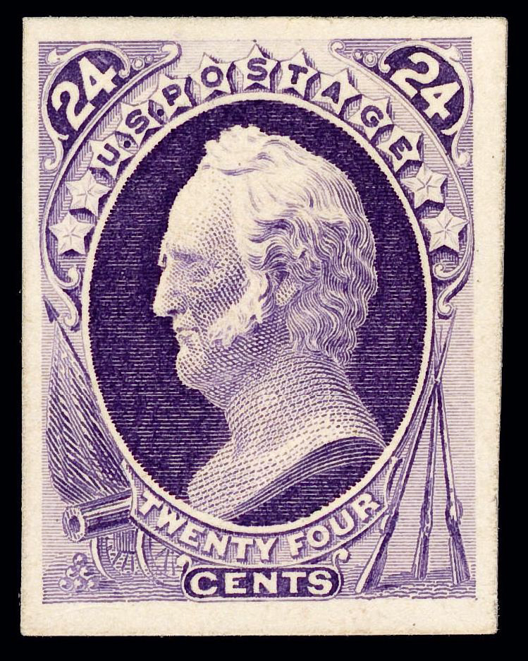 US Postage stamp, Winfield Scott, issue of 1870, 24c, purple